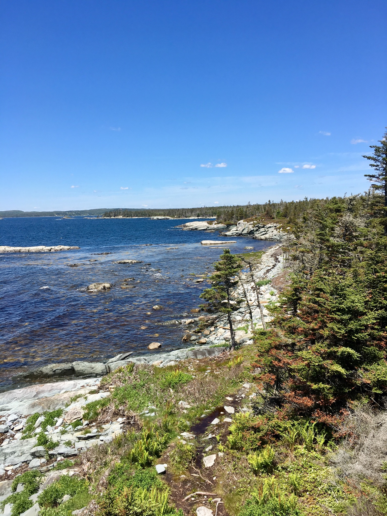 View of the Coast in Taylors Point provincial park This photo was taken in a protected area in Canada, Wikidata item Taylor Head Provincial Park (Q22468494)